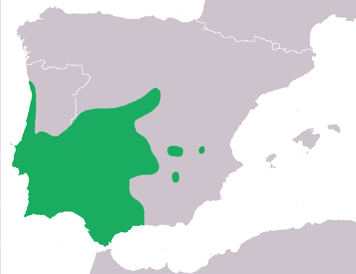 Range map of Triturus pygmaeus in Iberan Peninsule.